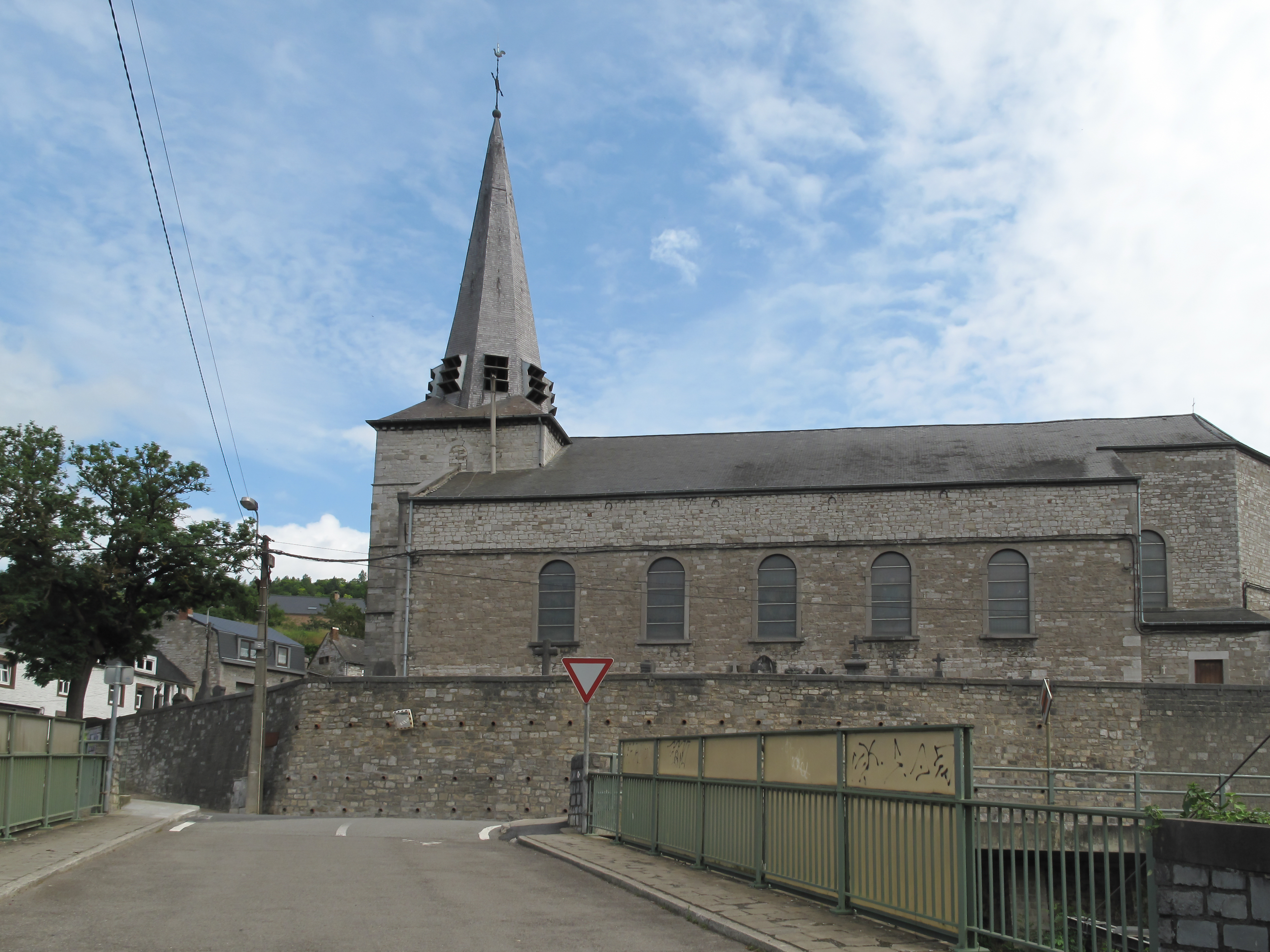 Namêche, church: église Notre-Dame